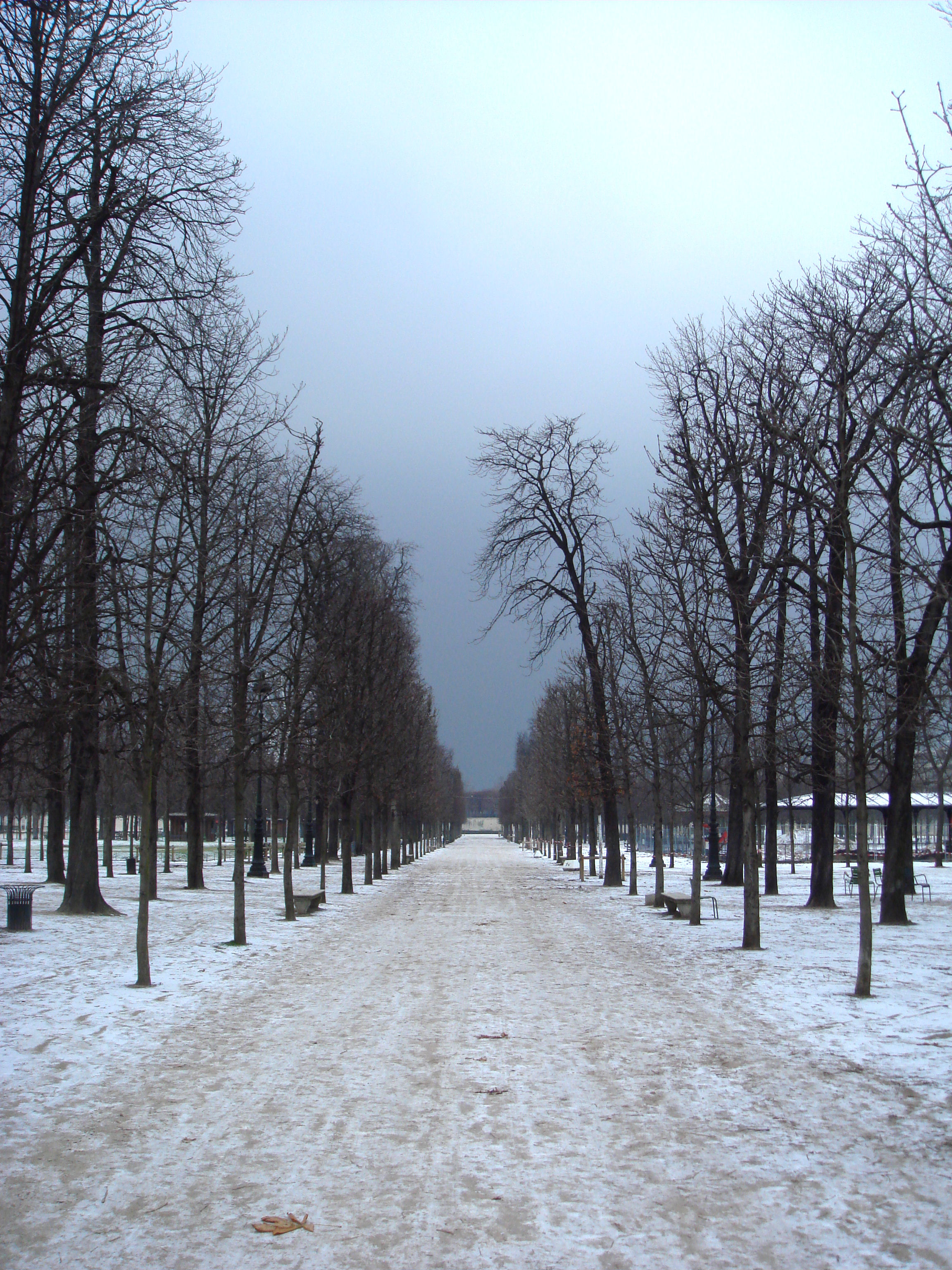 Jardin_des_Tuileries_in_winter